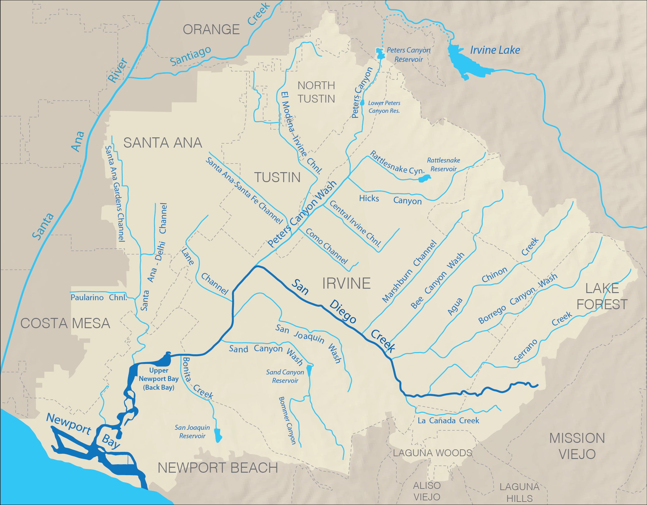 Map of the Newport Bay watershed in Orange County, California with the main tributary San Diego Creek highlighted. Drainage boundaries and stream courses from OC Watersheds.